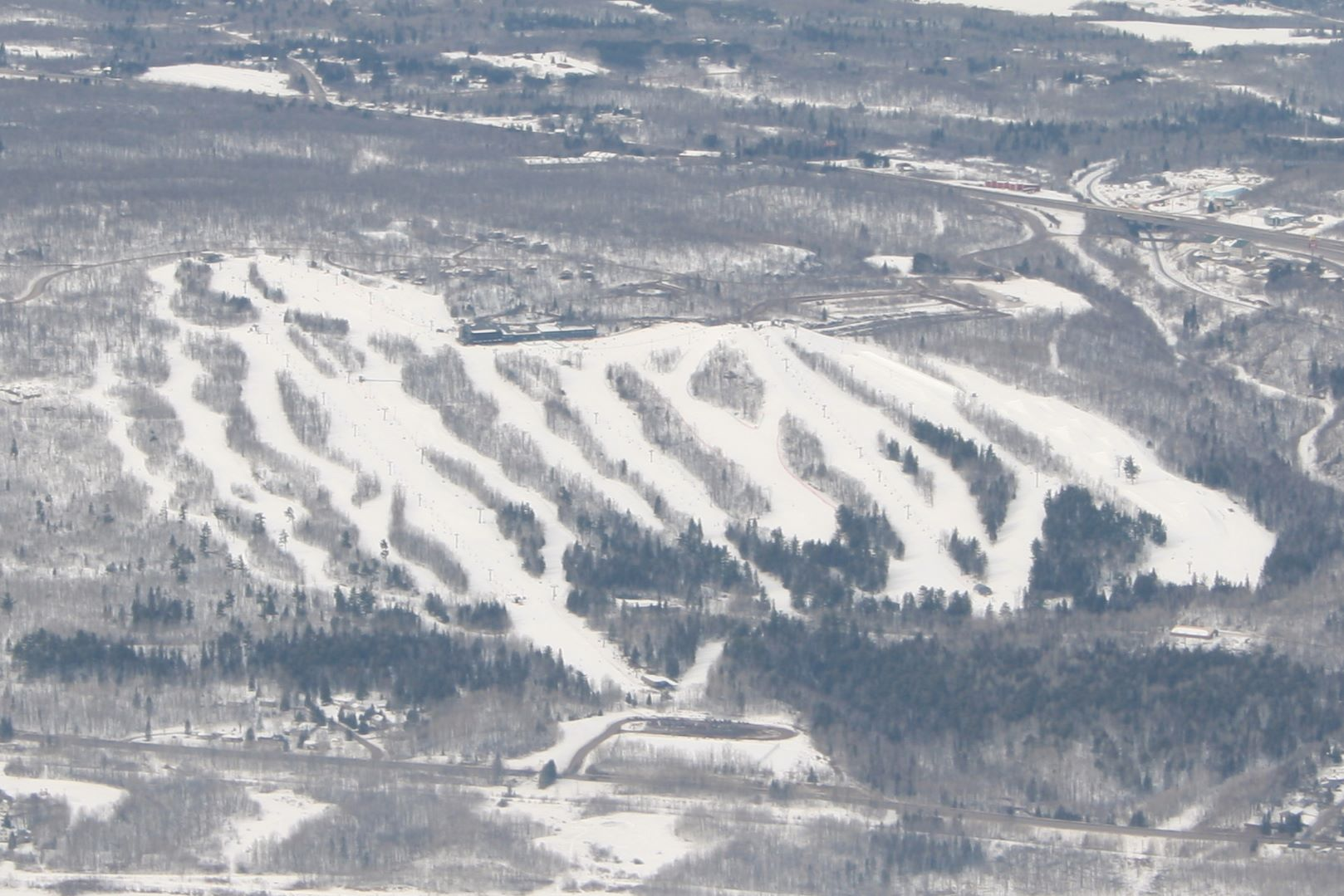 Spirit Mountain ski area taken from an airplane near Superior Wisconsin